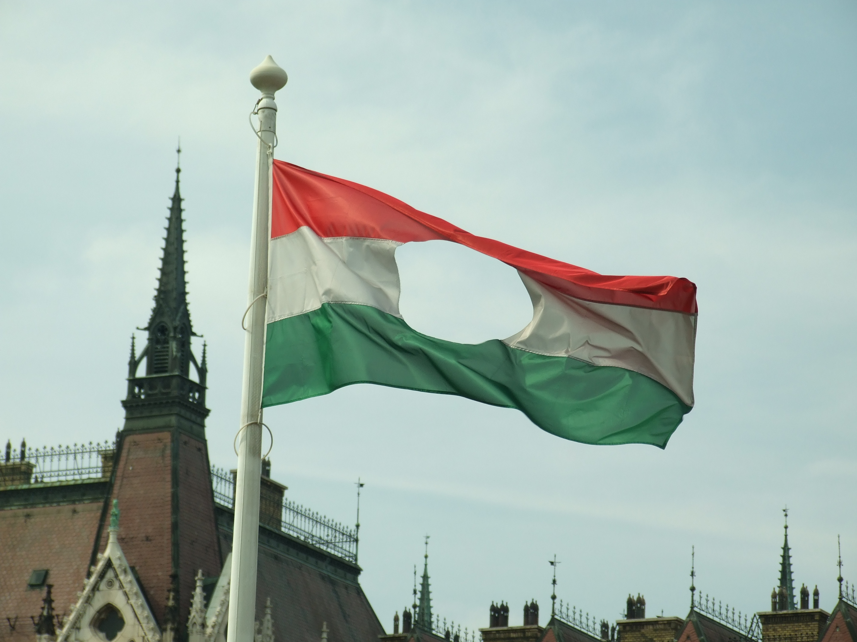 Flag of Hungary without socialist coat of arms near Országház in Budapest, HU